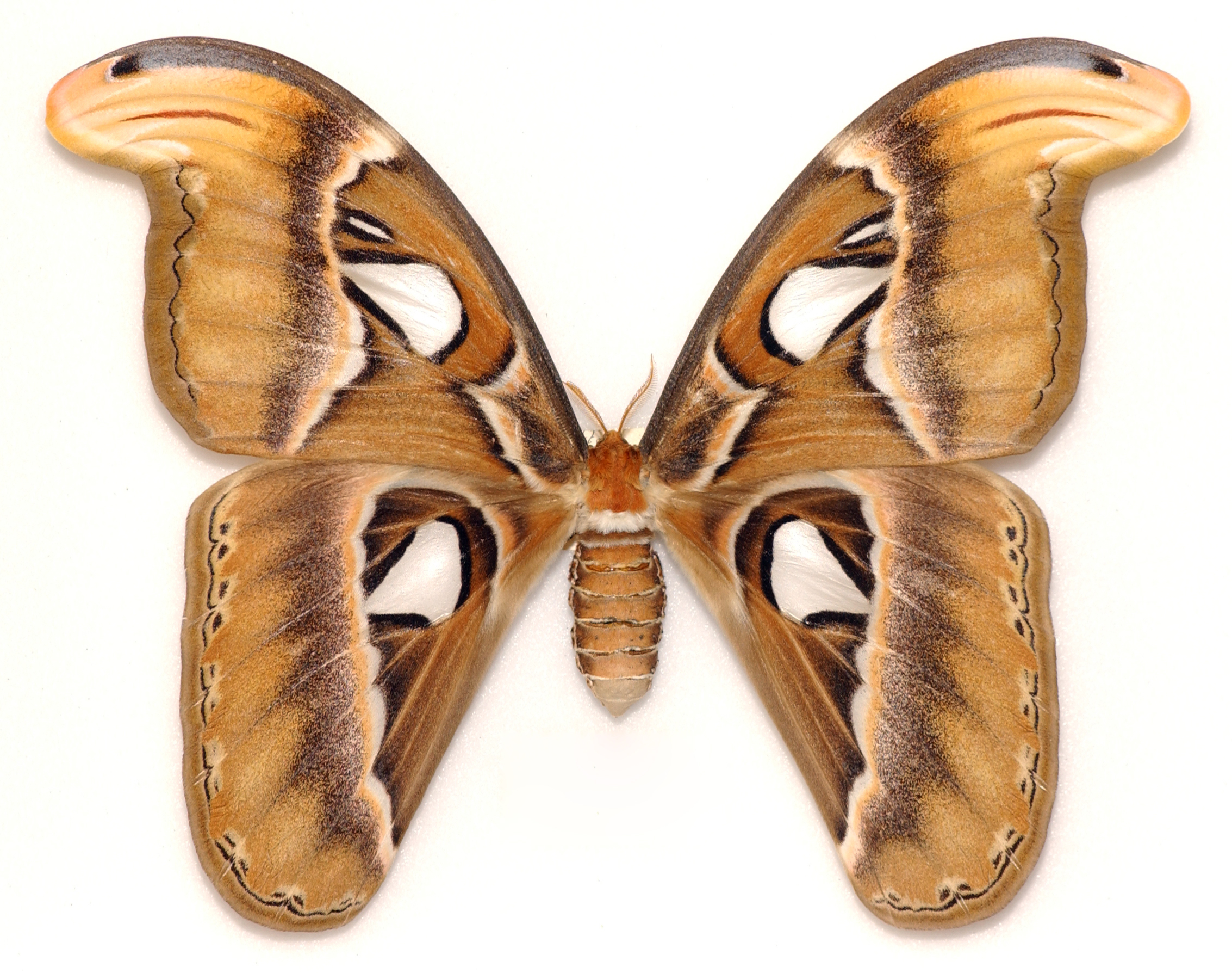 Attacus atlas (female); This forest moth is native of India . This is one of the largest moths in the world; it is a little smaller (for its size ; 20 to 30 cm) than Thysania agrippina but bigger in terms of wing area. Each pair of wing is marked by two " translucent windows". The female is less colorful (more greenish and clear as the male) and antennas (pectinated as those of the male) are narrower. The atrophied mouth of this butterfly does not allow him to eat : he lives only a short time to breed (male lives about 4 days and the female 7-8 days). This specimen comes from the natural zoological collections of Lille Natural History Museum.